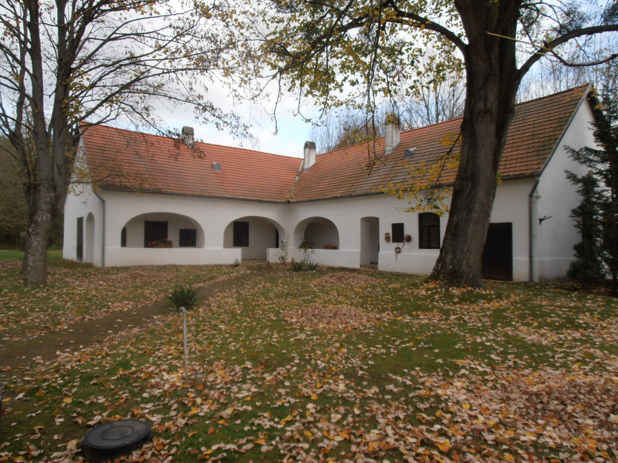 Noszlopy mansion in Újvárfalva, Hungary. Place of birth of Gáspár Noszlopy. Reconstructed in 1816.